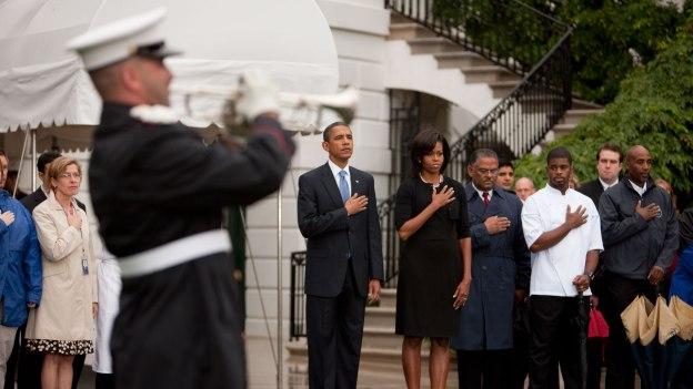 President Obama, the First Lady and White House staff observe a moment of silence. White House Photo, Chuck Kennedy, 9/11/09